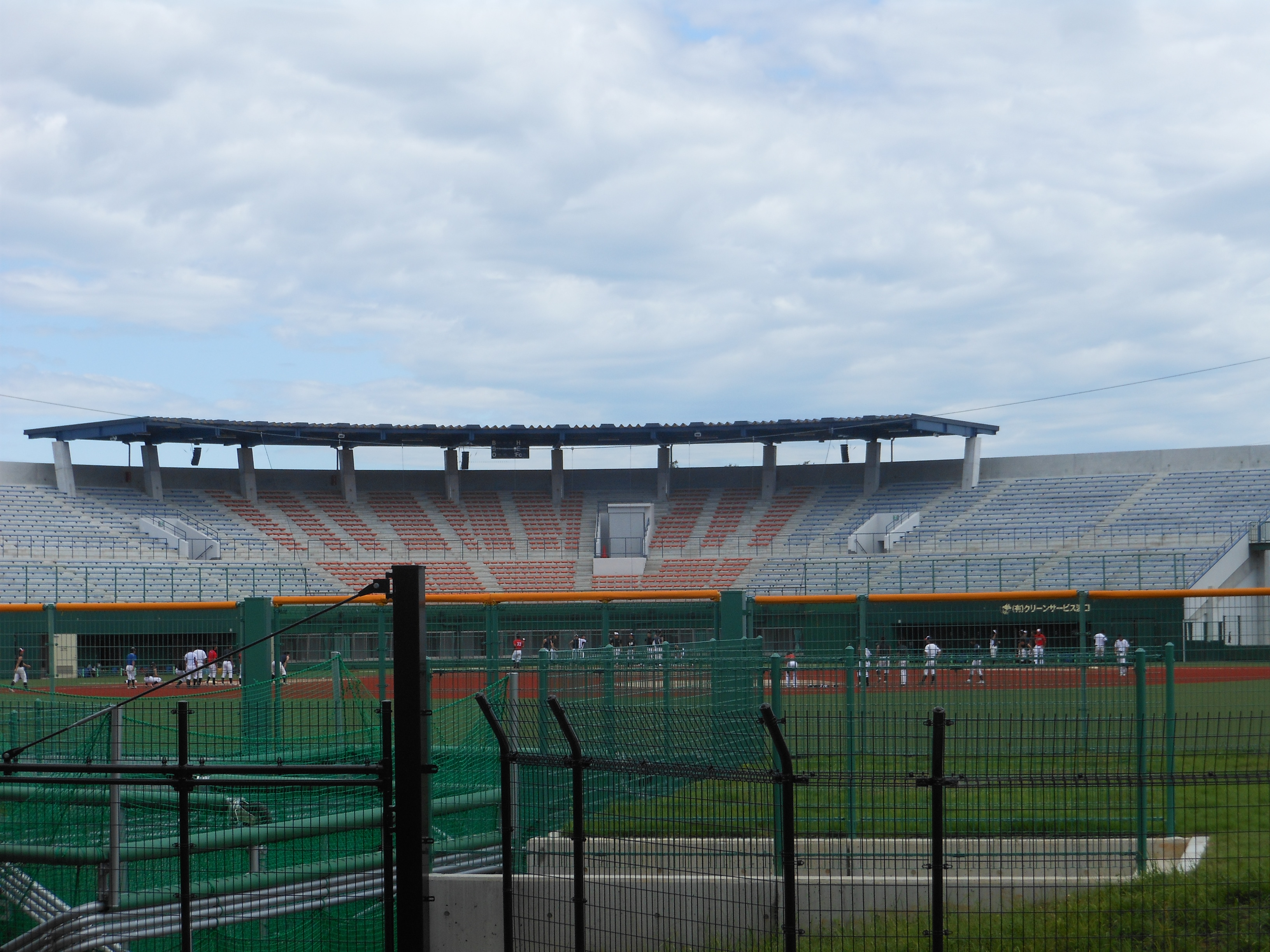 This is the Ise City Kuratayama Park Baseball Stadium in Ise, Mie, Japan.